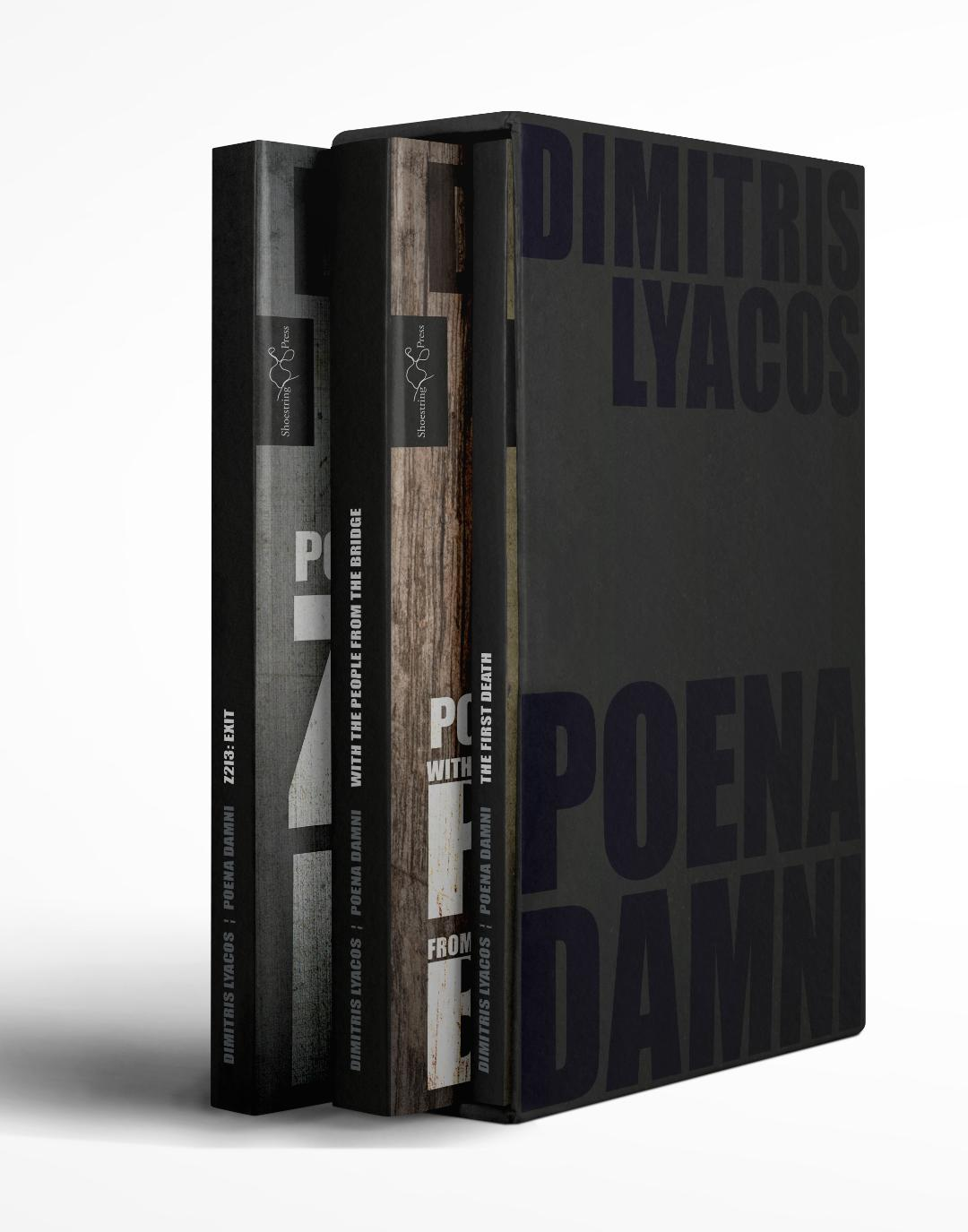 Box Set English Edition of Dimitris Lyacos's trilogy Poena Damni.